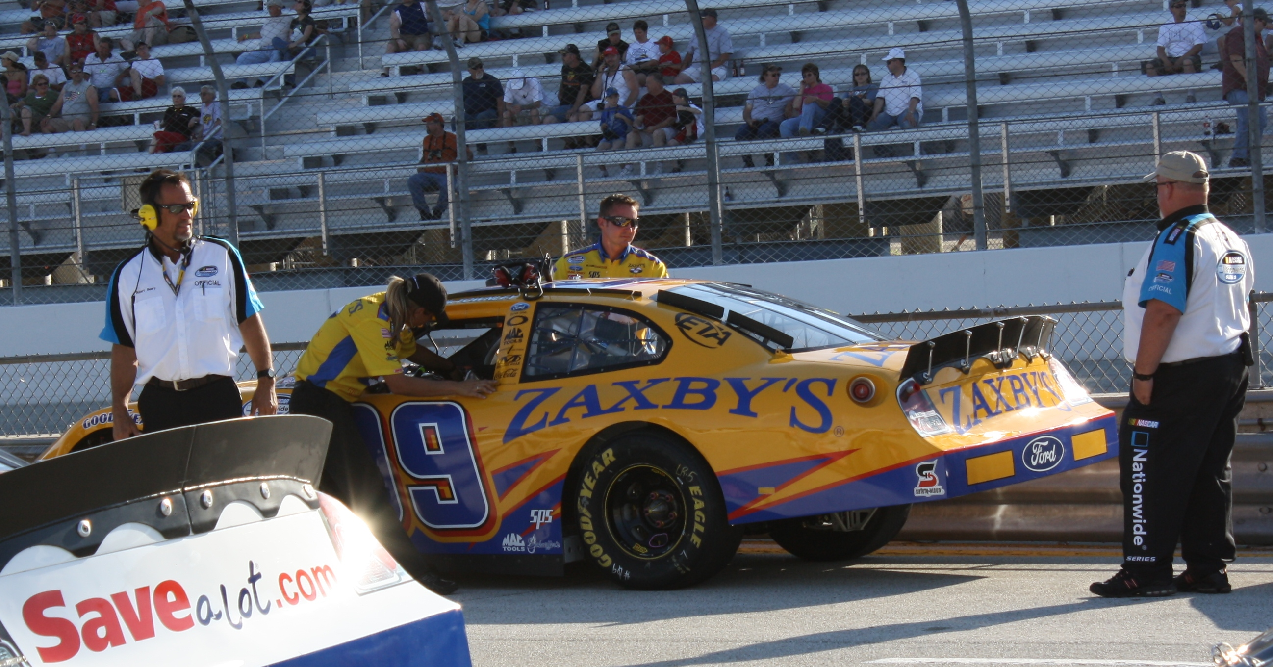 NASCAR driver John Wes Townleys race being pushed off after not qualifying at the 2009 Northern 250 Nationwide Series race at the Milwaukee Mile.